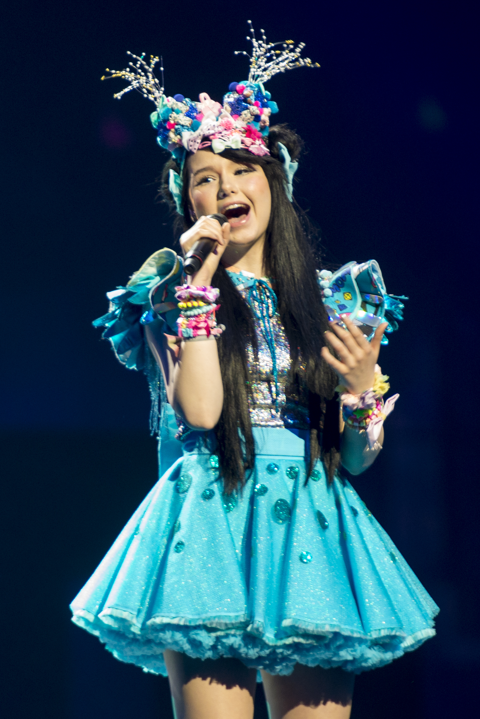 Jamie-Lee representing Germany with the song "Ghost" during a rehearsal for "the Big Five" in the Eurovision Song Contest 2016 in Stockholm. (Help translate this text)